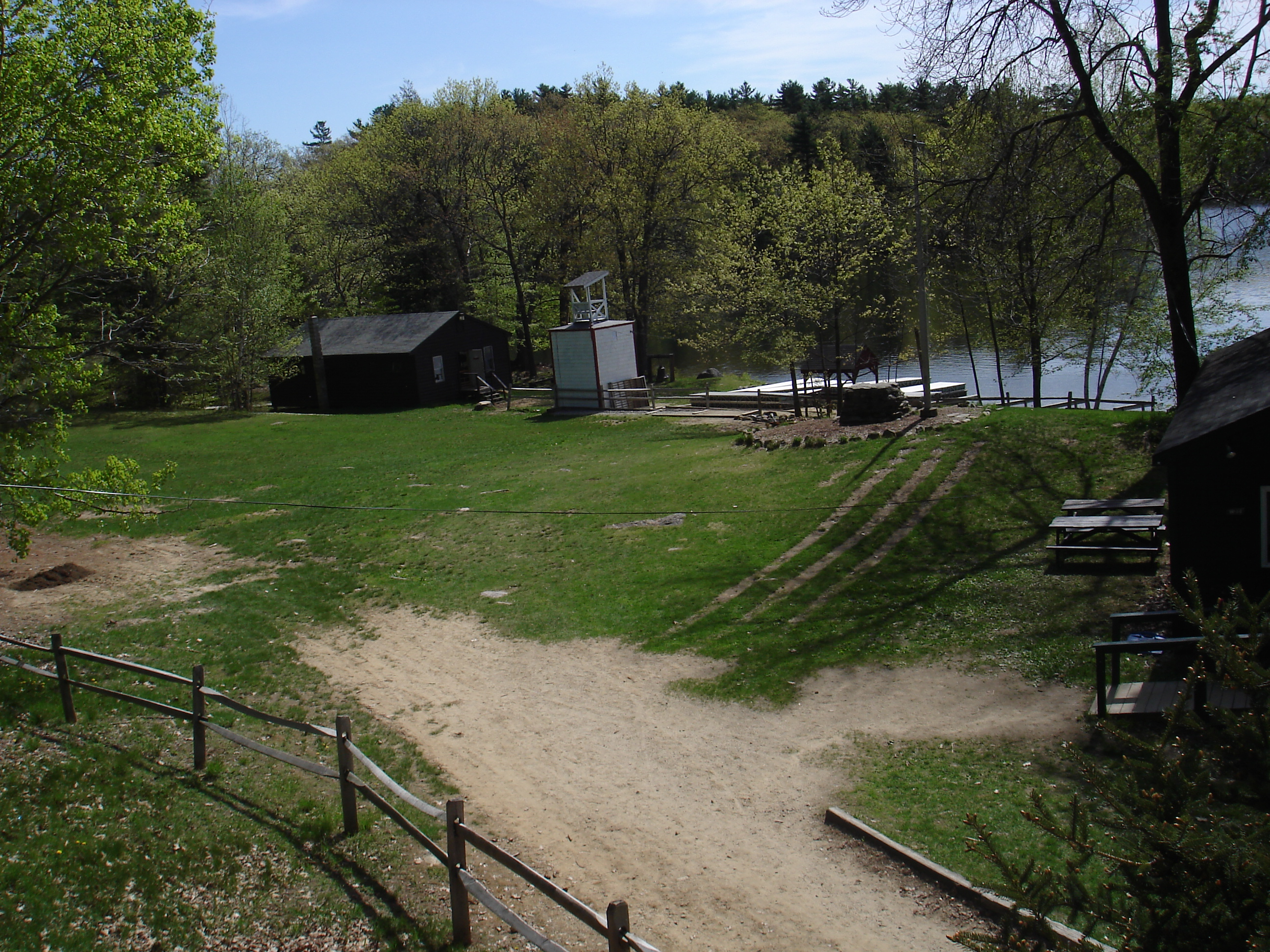 The main field of Camp Wanocksett of the Nashua Valley Council